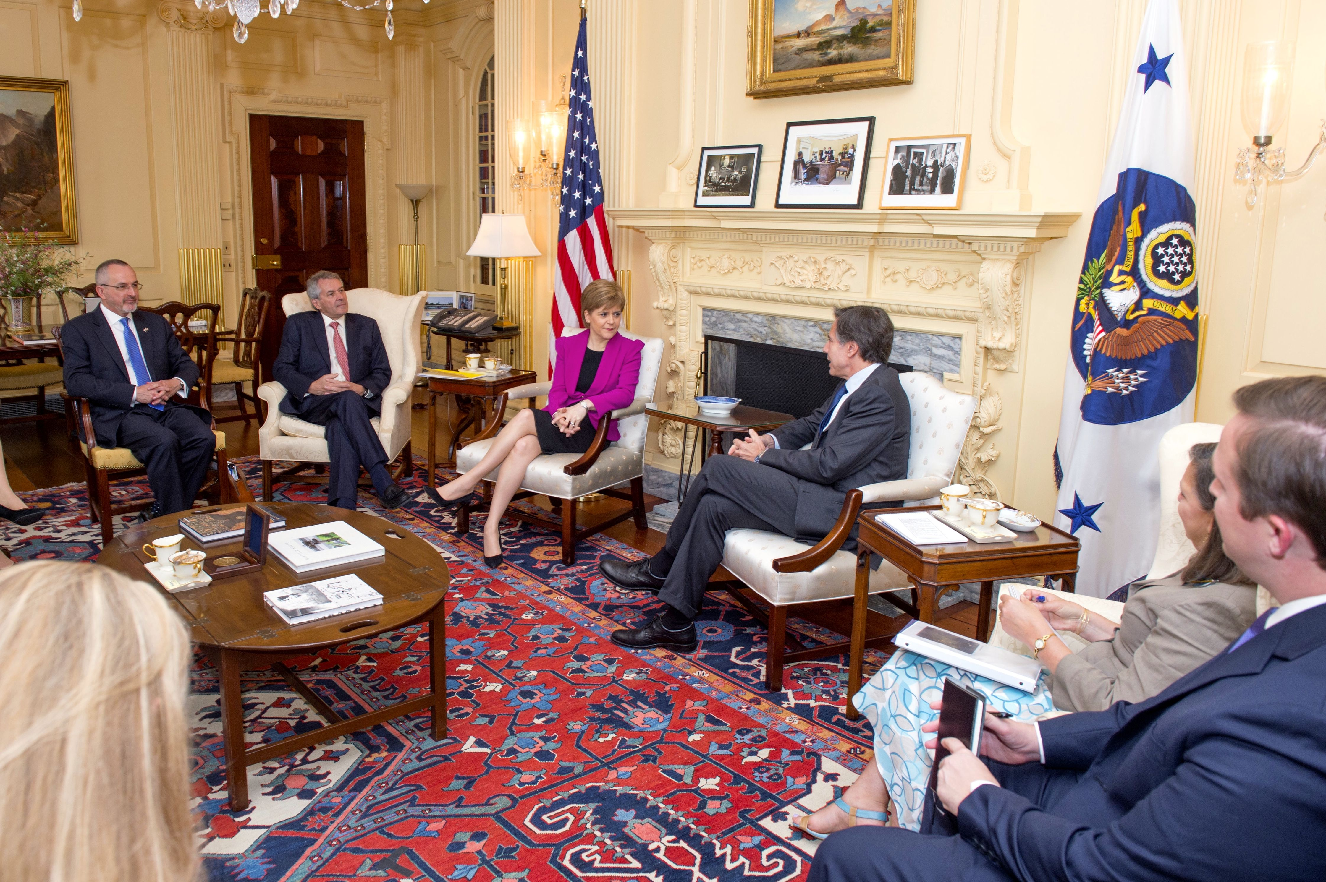 Deputy Secretary of State Antony "Tony" Blinken meets with Scottish First Minister Nicola Sturgeon at the U.S. Department of State in Washington, D.C., on June 10, 2015. [State Department photo/ Public Domain]